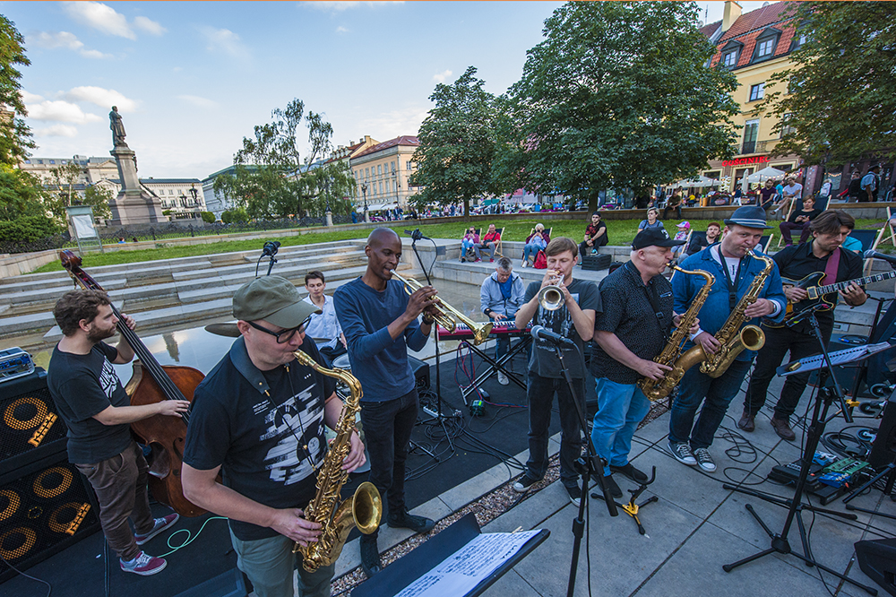 A jam session by local jazz musicians in Warsaw, Poland in July 2019.